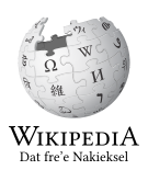 Wikipedia logo 2.0